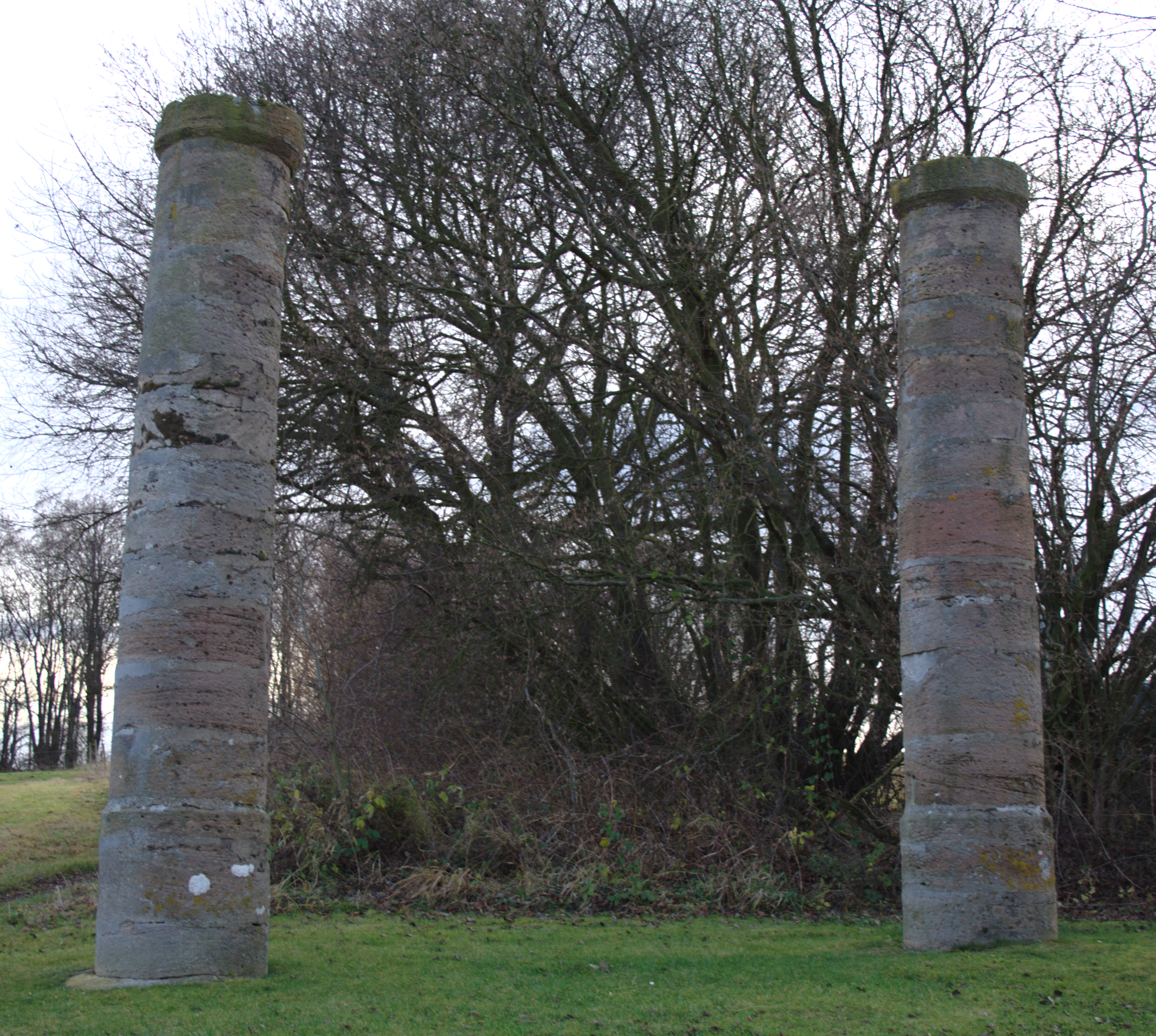 Gallow near Hopfmannsfeld, Lautertal, Hesse, Germany